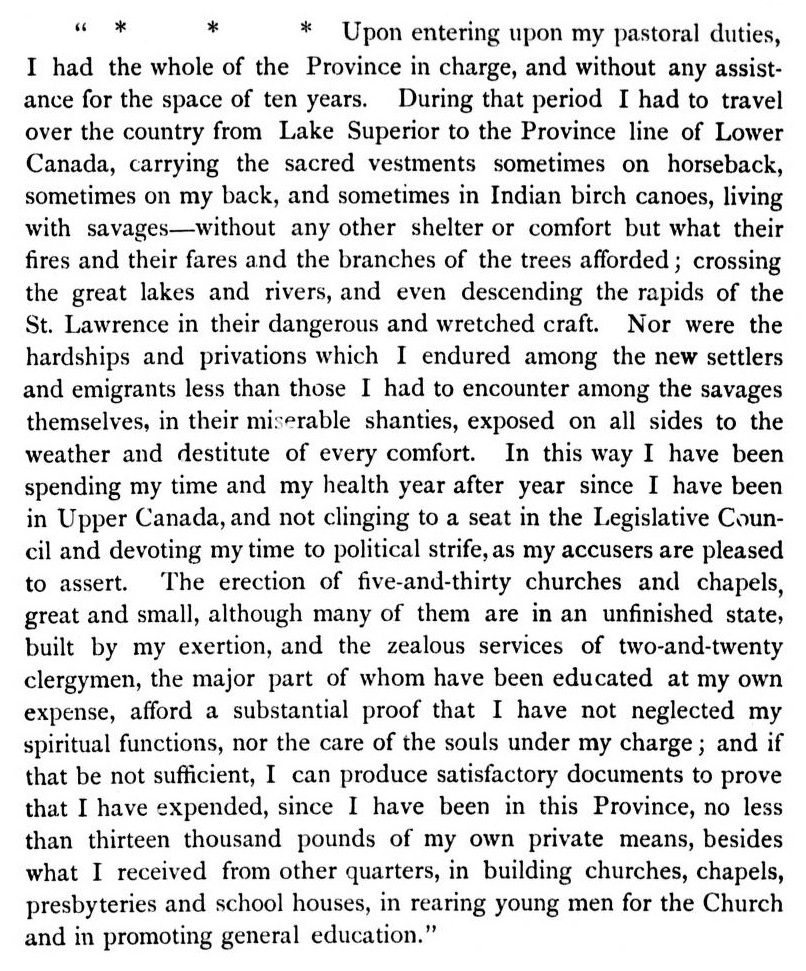 Alexander Macdonell, first bishop of the Roman Catholic Diocese of Kingston, in a letter to Sir Francis Bond Head, Lieutenant Governor of Upper Canada, rejects several allegations uttered against him in the House of Assembly in 1836, and retrospectively describes his life as vicar for the whole of Upper Canada.